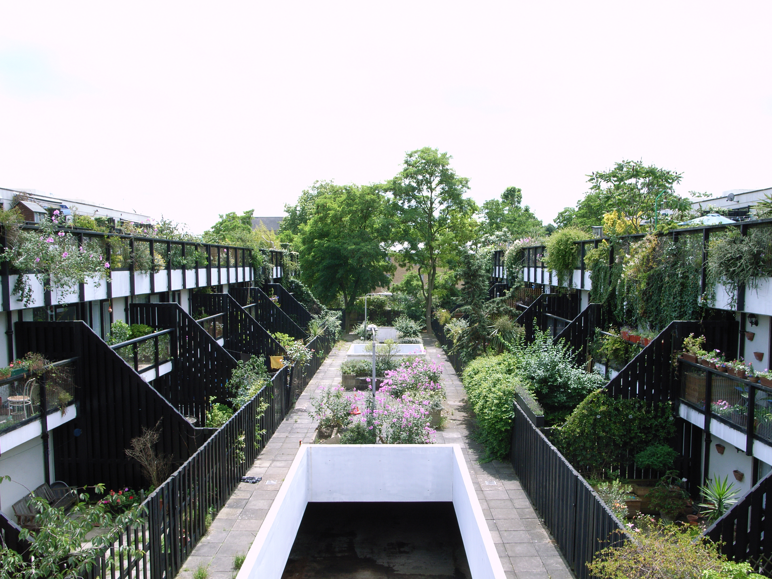 Dunboyne Road Estate (design 1966, built 1969-77) by Camden Architects Department (Neave Brown)